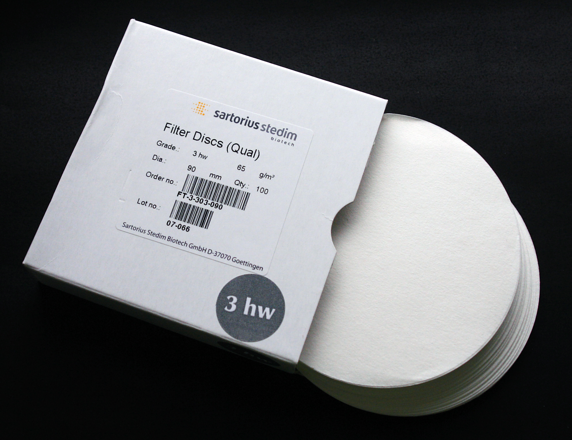 Filter discs